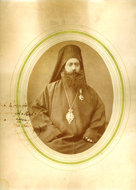 Neofyt of Plovdiv